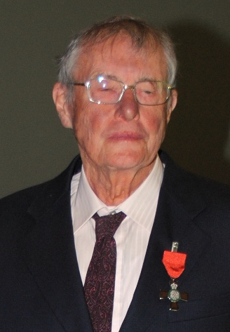 Rod Bieleski, after his investiture as MNZM, for services to horticultural science, on 24 August 2010